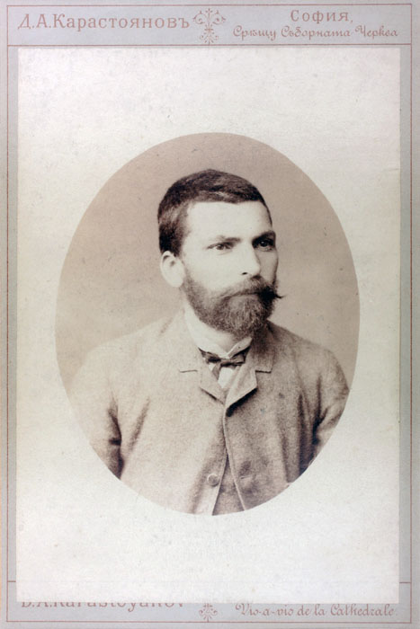 Bulgarian revolutionary, writer and politician Zahari Stoyanov (1850-1889)